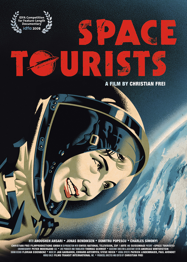 Movie poster of the feature length documentary Space Tourists (2009) of Swiss director Christian Frei (artwork).